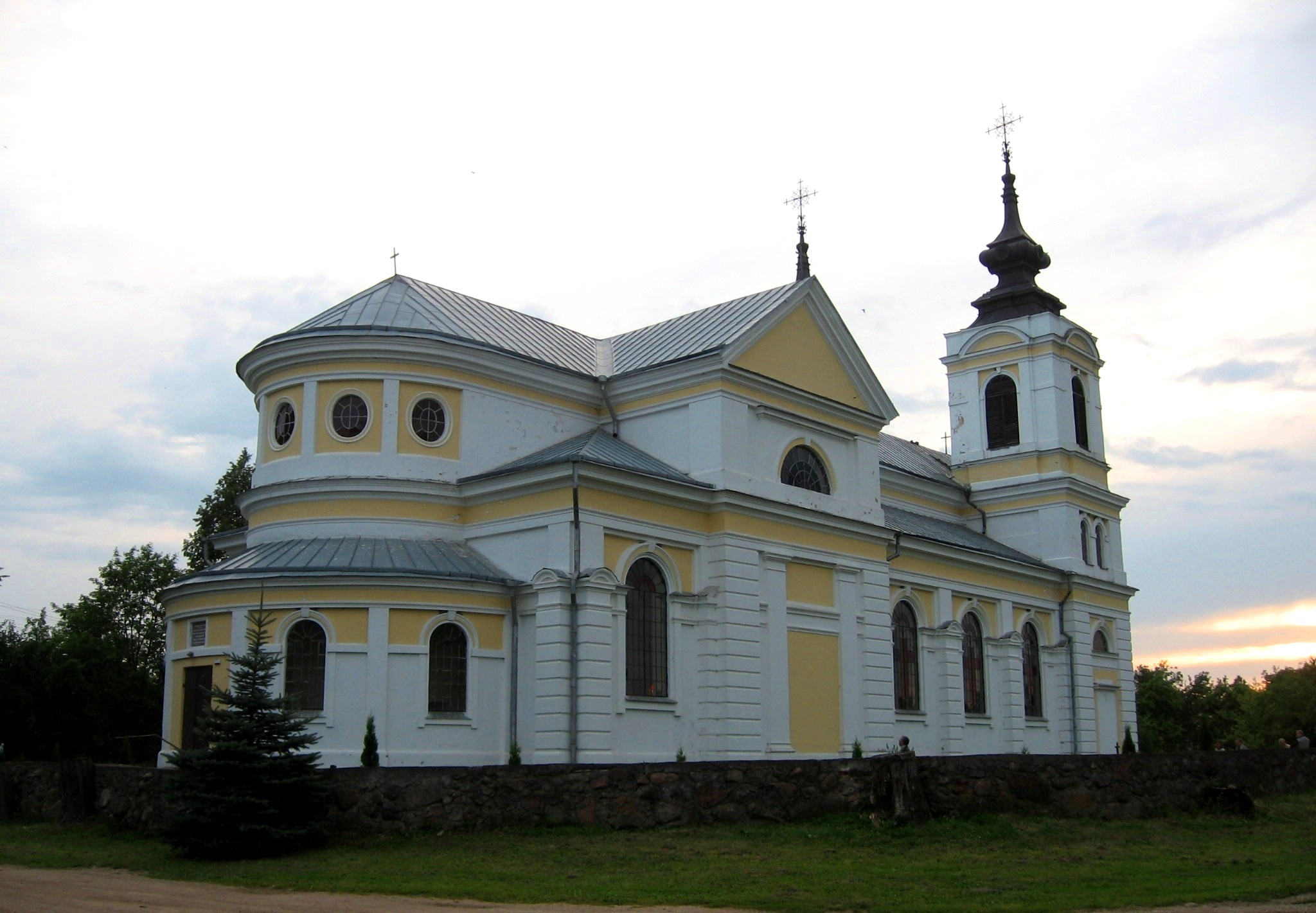 Catholic church of St. John the Baptist in Bieniakone, Belarus.